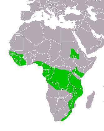 Kronenadler World Stephanoaetus coronatus